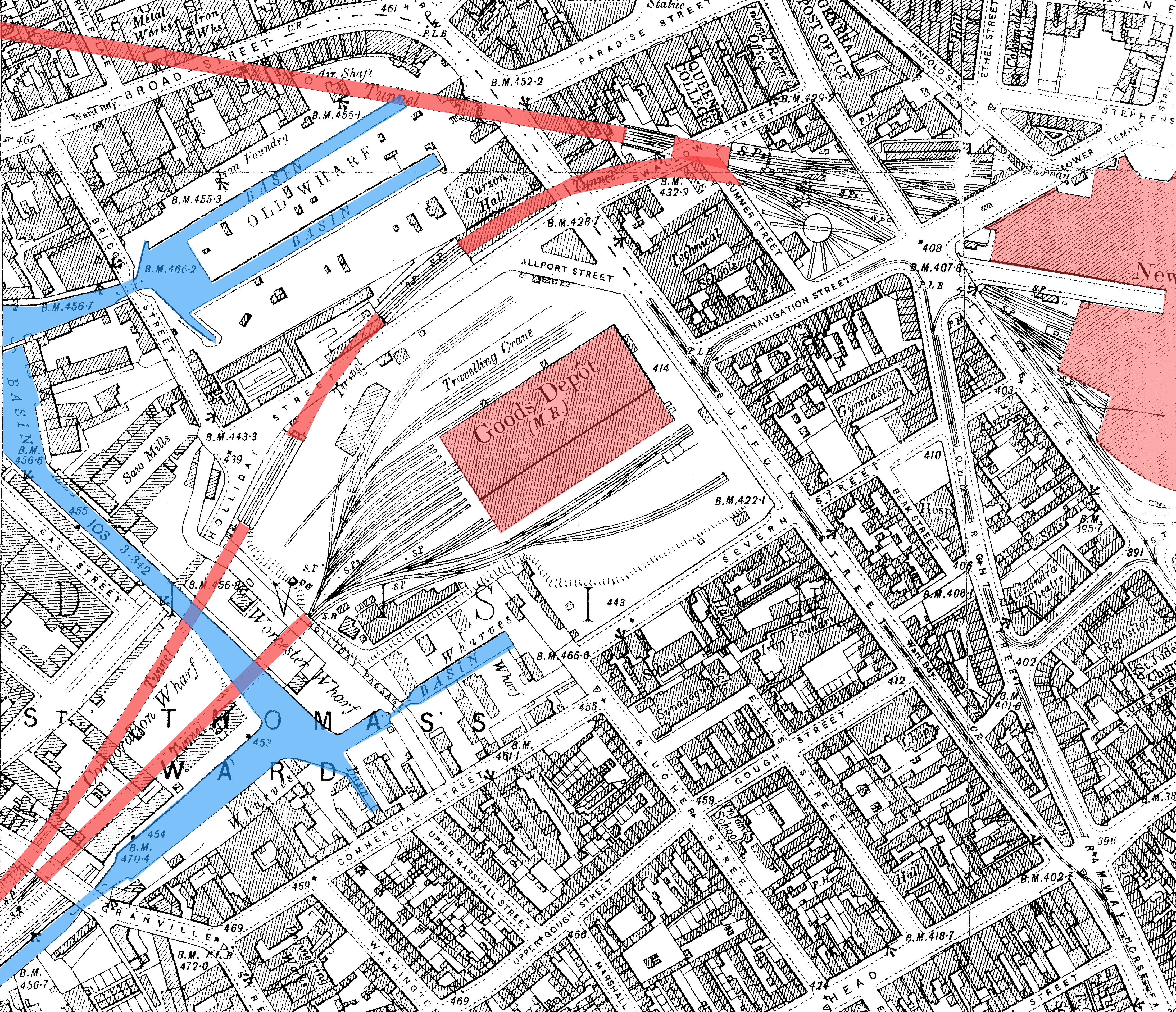 Old Ordnance Survey map, 2nd edition 1905, showing west-central Birmingham - Worcester Wharf, Old Wharf, Central Goods railway station, part of Birmingham New Street railway station. Centred at approximate coordinates: 52.476,-1.905, just north of the current location of The Mailbox. Shown in blue is the Worcester Bar at Gas Street Basin (left margin), Old Wharf terminus of the Birmingham Canal, and the Worcester and Birmingham Canal. Shown in red are three tunnels: New Street Tunnel of the Stour Valley Line (top); tunnel of the Birmingham West Suburban Railway (now the Cross-City Line) between New Street and Five Ways railway station (long curve); Granville Tunnel leading to the Central Goods Depot (bottom}. Coloured by Oosoom.